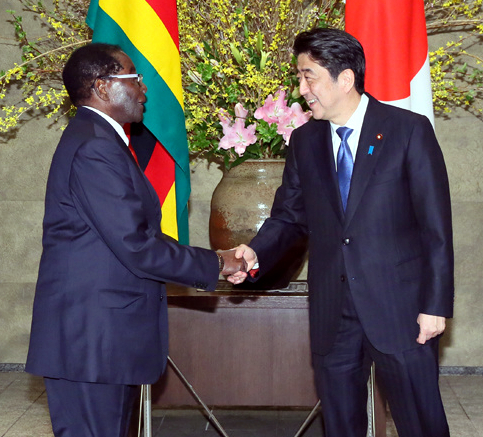 Robert Mugabe, President, met Shinzō Abe, Prime Minister, at the Prime Minister's Official Residence in Chiyoda Ward, Tōkyō Metropolis on March 28, 2016.